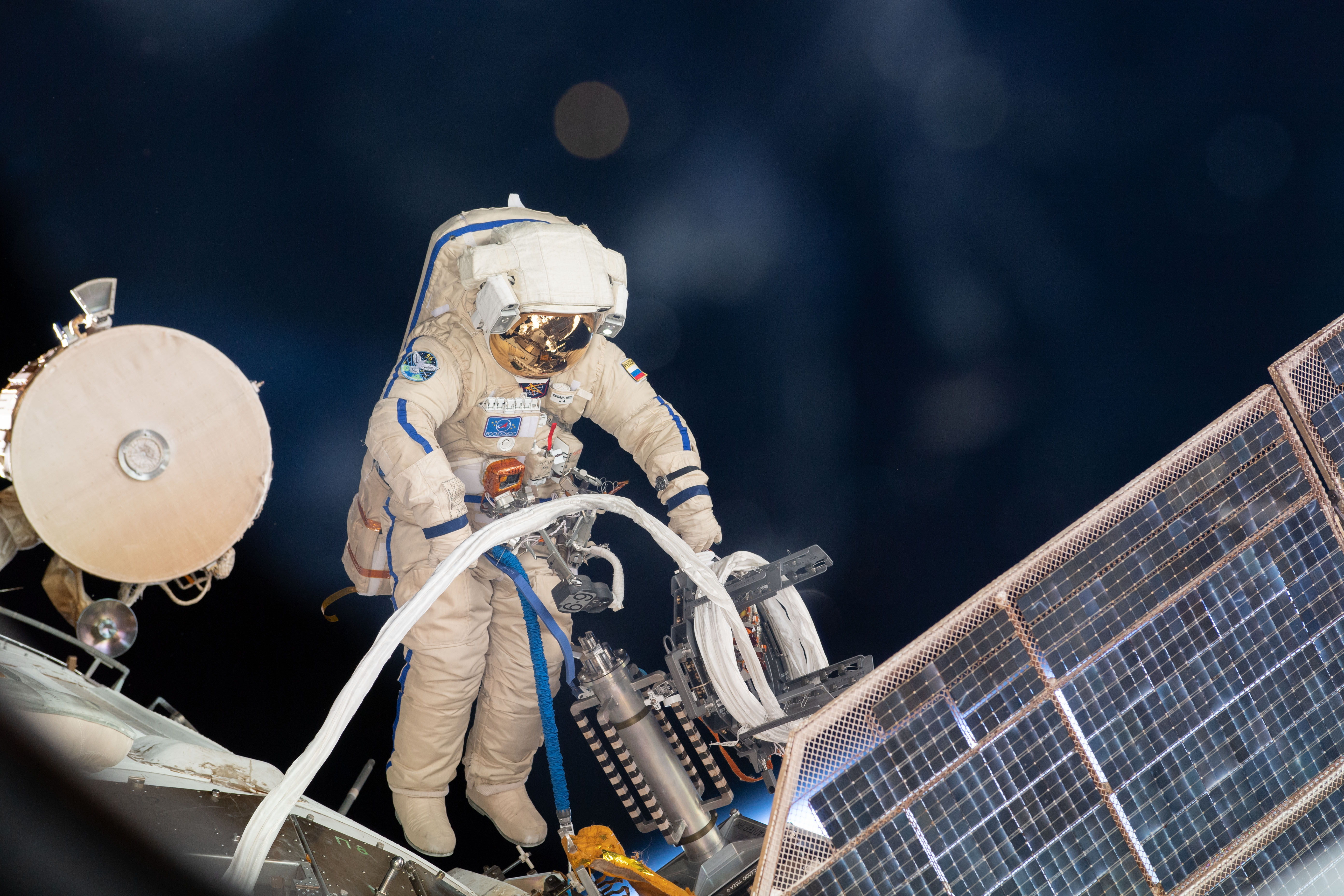 Roscosmos cosmonaut Sergey Prokopyev lays cable for the installation of the Icarus animal-tracking experiment on the Zvezda service module during a spacewalk that lasted 7 hours 46 minutes. Fellow cosmonaut Oleg Artemyev (out of frame) joined Prokopyev during the spacewalk which also saw the deployment of four nano-satellites and the retrieval of a materials exposure experiment on the Russian segment of the International Space Station.